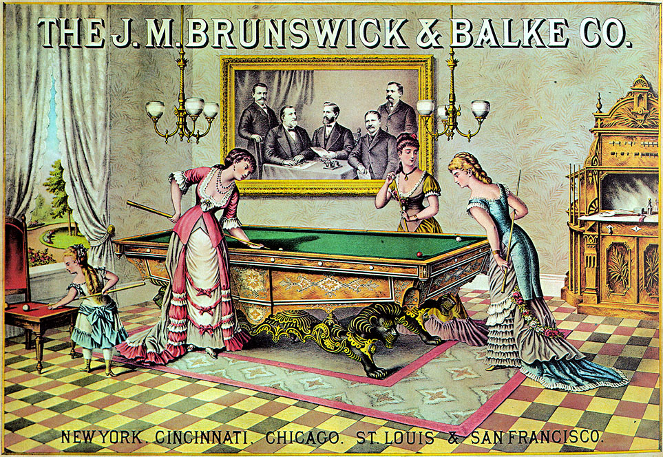 Early 1880s chromolithograph poster for the J.M. Brunswick and Balke Company (printed in Chicago), depicting three ladies playing billiards while wearing the tight dress styles of ca. 1880. A little girl is closely imitating the grown-up women. A technique with one hand held behind the back seems to be favored.